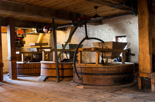 Milling Stones- 1st and 2nd for oats and the 3rd for flour.